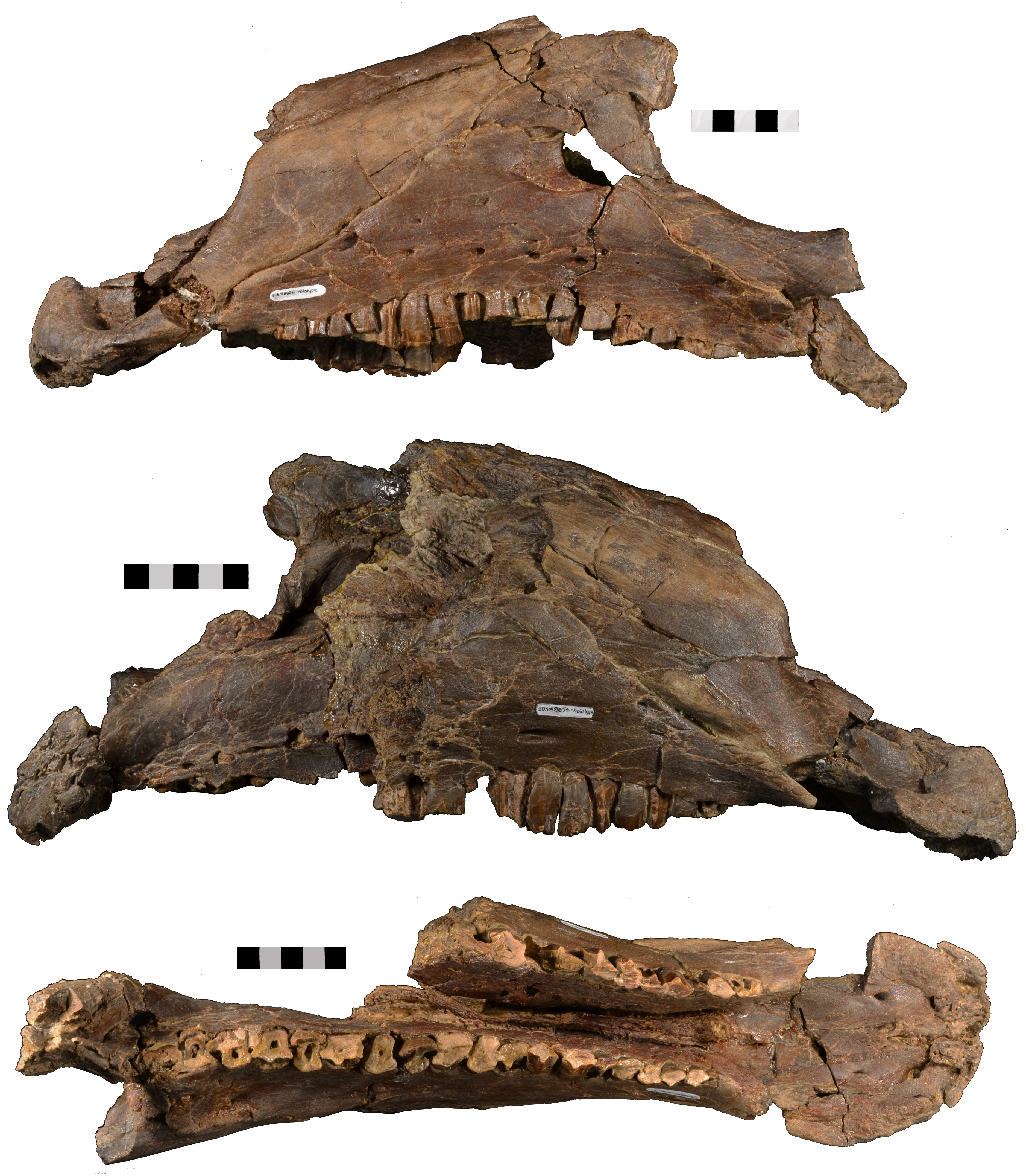 Anterior portion of the skull of Dakotadon lakotaensis (SDSM 8656). (A) photograph in left lateral view; (B) photograph in right lateral view; (C) photograph in ventral view. Abbreviations: ant, anterior; post, posterior; vent, ventral. Scale bars equal 5.0 cm.